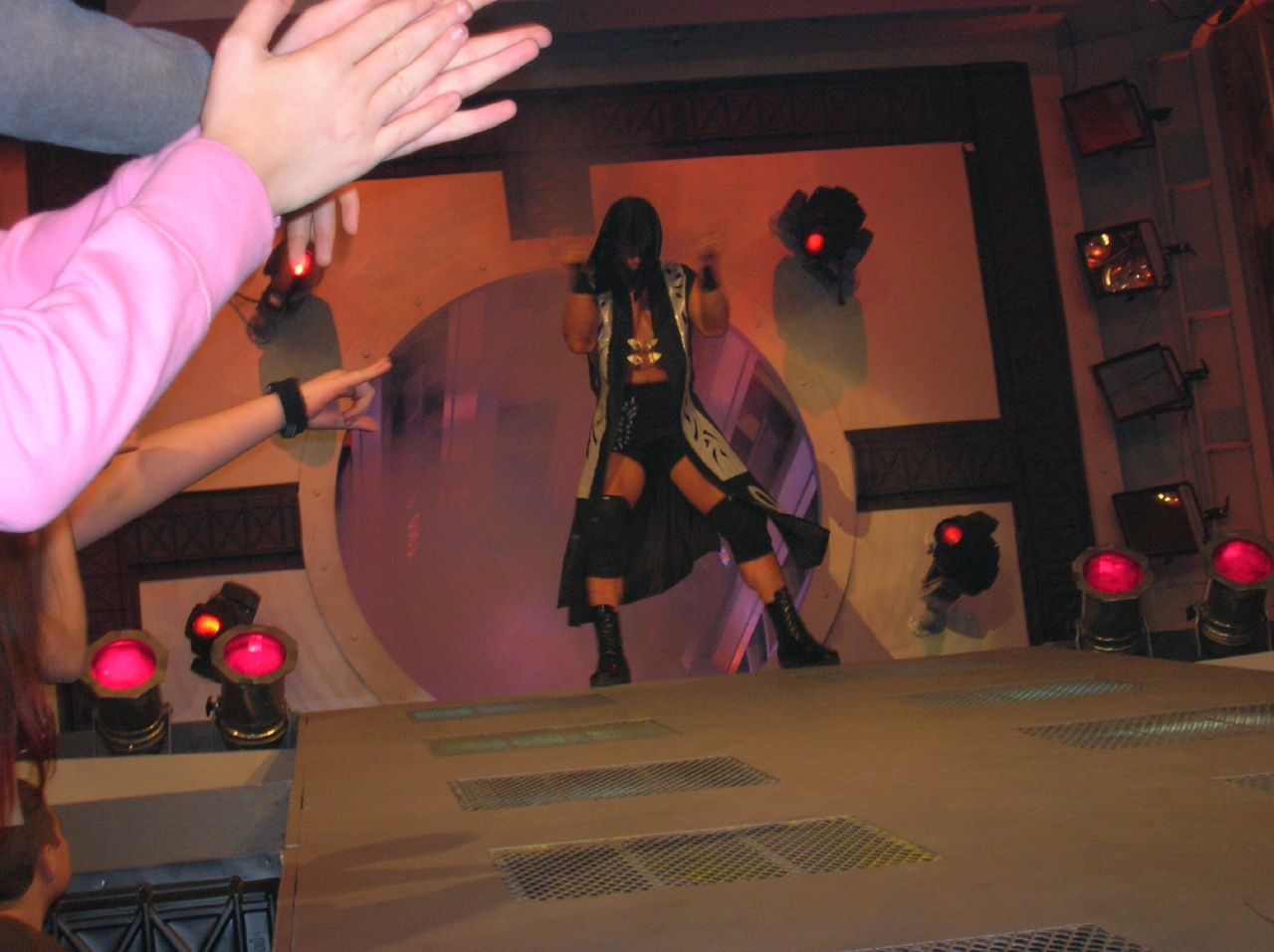 Daniels during his ring entrance.